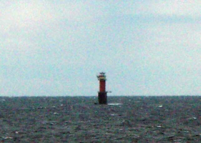 Cassune lighthouse Tallinnmadal